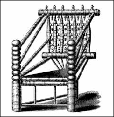 "Proof print of an engraving of the President’s Chair executed to illustrate The History of Harvard University by Josiah Quincy, 1840. Original drawing by Quincy’s daughter, Eliza. ... Crafted of ash in the mid- to late 16th century, the President’s Chair was acquired by the College in the mid-1700s and is among the holdings of the Harvard University Art Museums."